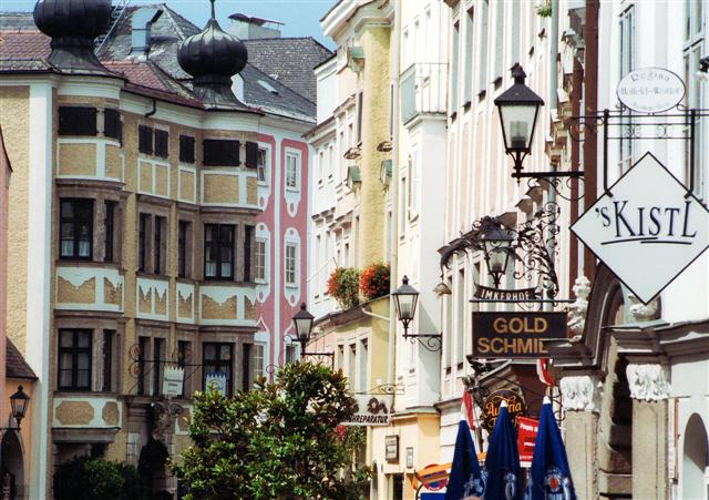 the Hauptplatz, Old Town of Linz